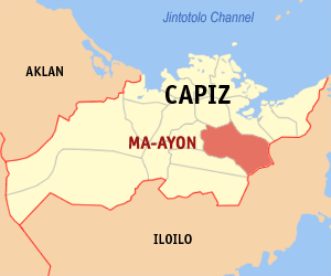 Map of Capiz showing the location of Ma-ayon